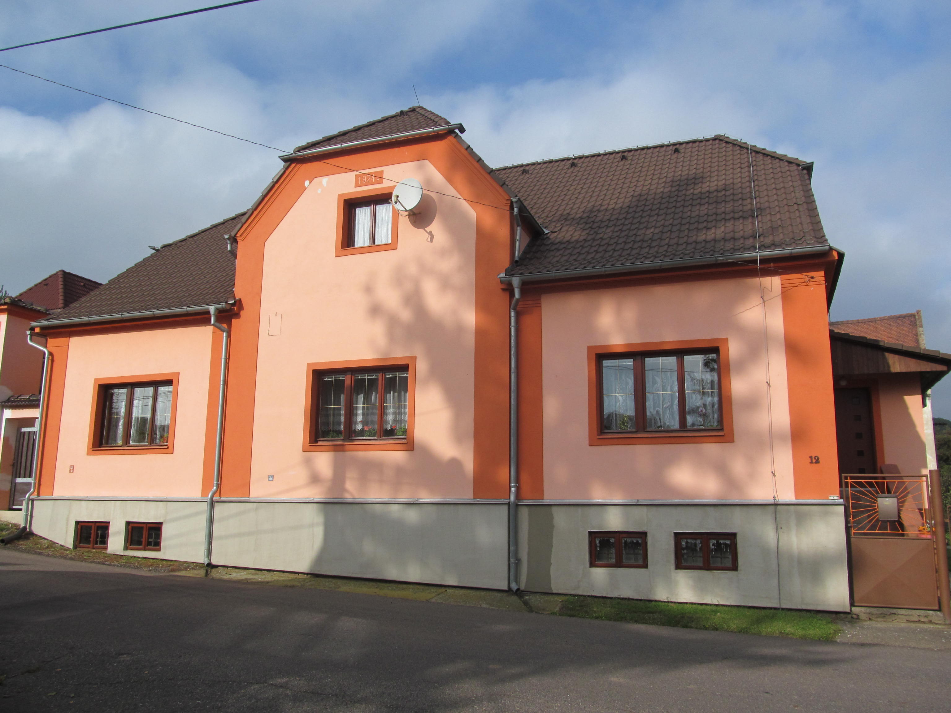 House Nr. 12 in Veletice